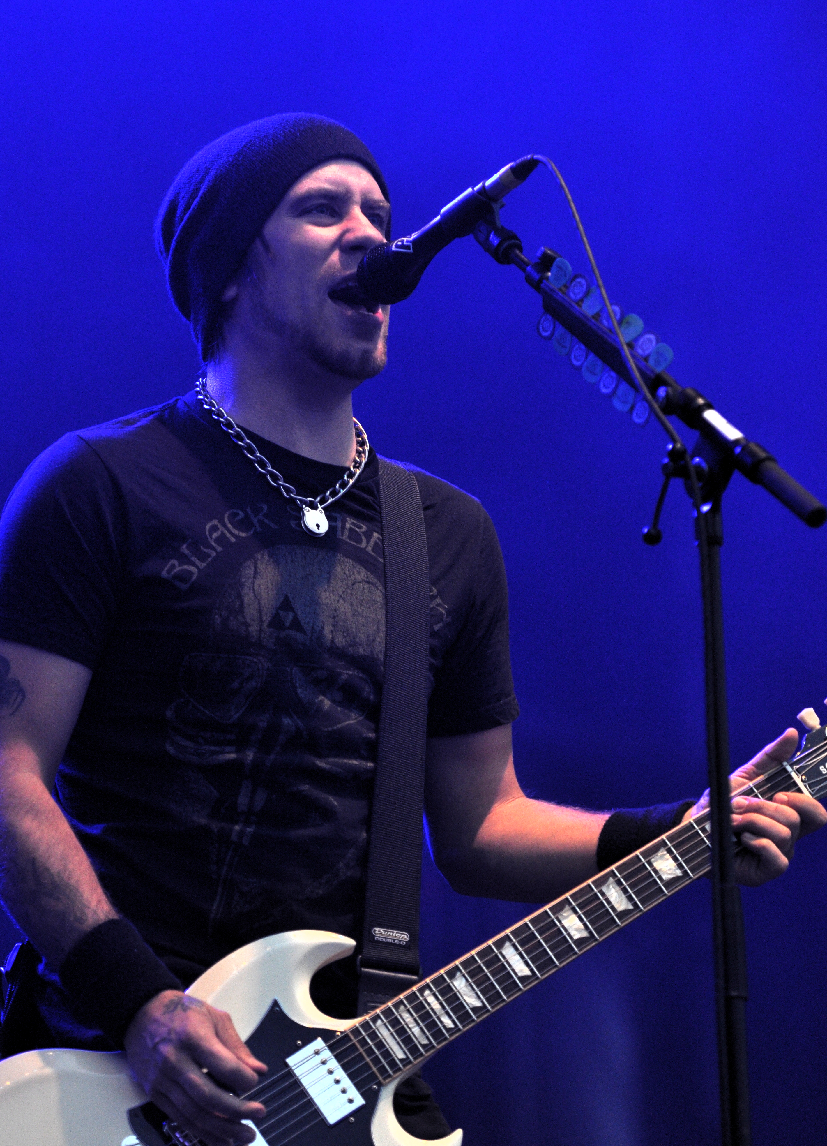 Jessie Farnsworth of Newsted at Rock am Ring 2013